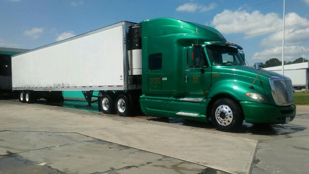 G-3 Resources LLC Trucks and trailers hauls produce from Texas to all over the US.